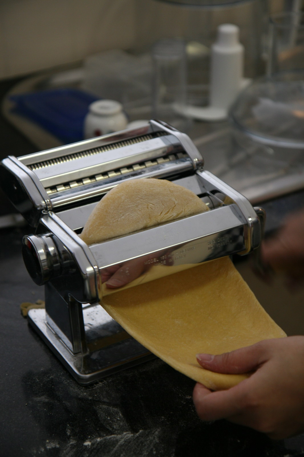 The ball is past through the pasta machine, reducing the roller spacing to produce the required thickness.